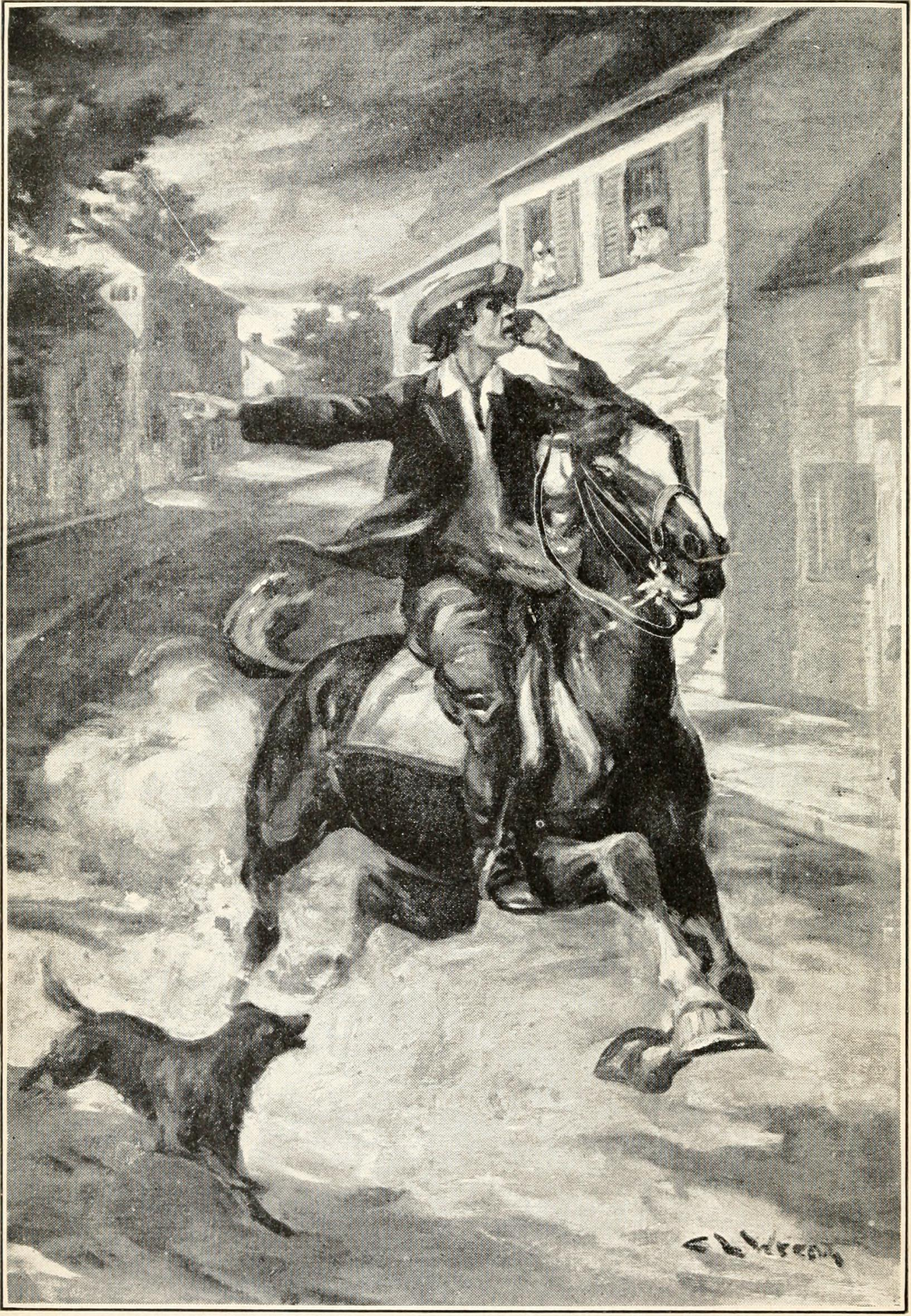 Title: Paul Revere, the torch bearer of the revolution Year: 1916 (1910s) Authors: Moses, Belle Subjects: Revere, Paul, 1735-1818 Publisher: New York : D. Appleton and Company Text Appearing Before Image: I Text Appearing After Image: On, on the good horse galloped, his rider shouting his (Page no) message as he went. PAUL REVERE THE TORCH BEARER OF THE REVOLUTION BY BELLE MOSES AtJTHOB OF LOUISA M. ALCOTT, LEWIS CABHOLL,CHABLE8 DICKENS, ETC.paulreveretorchb00mose